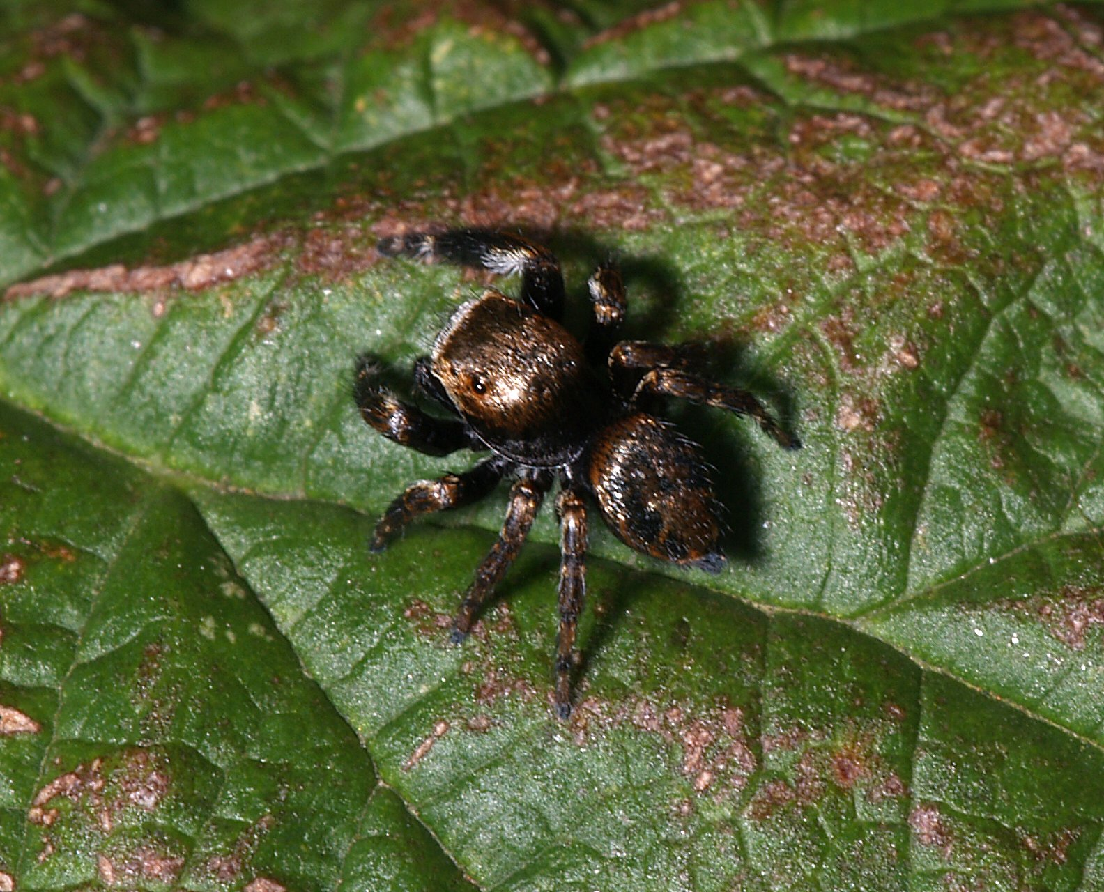 male Evarcha arcuata from a meadow near Ratingen, Germany.